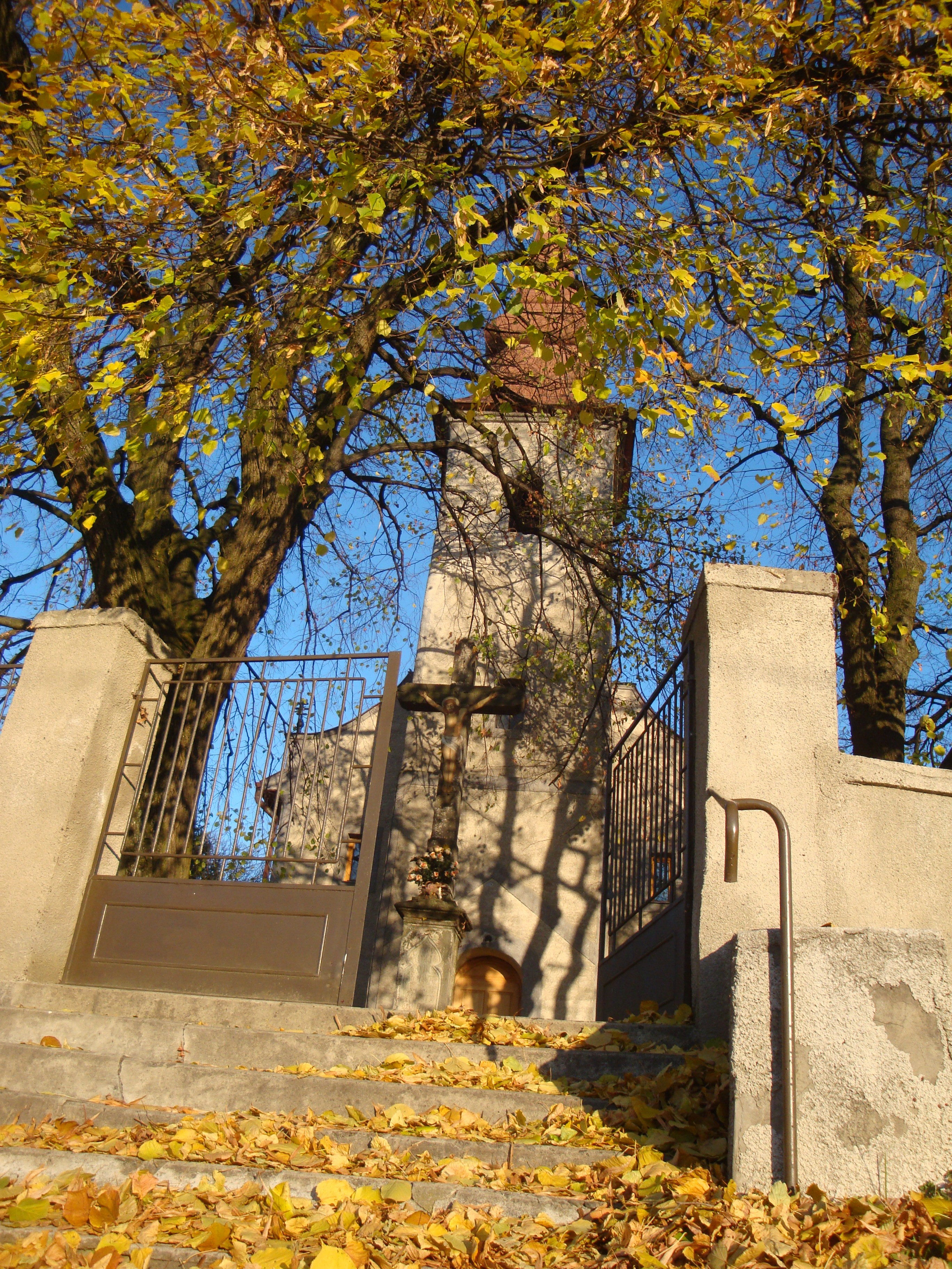 Andrew Ray, personal photograph taken while walking in Koromľa, Slovakia October 31st, 2010.